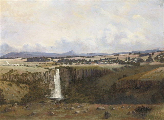 Village of Howick and Umgeni Falls (360 ft.) in Natal, South Africa.